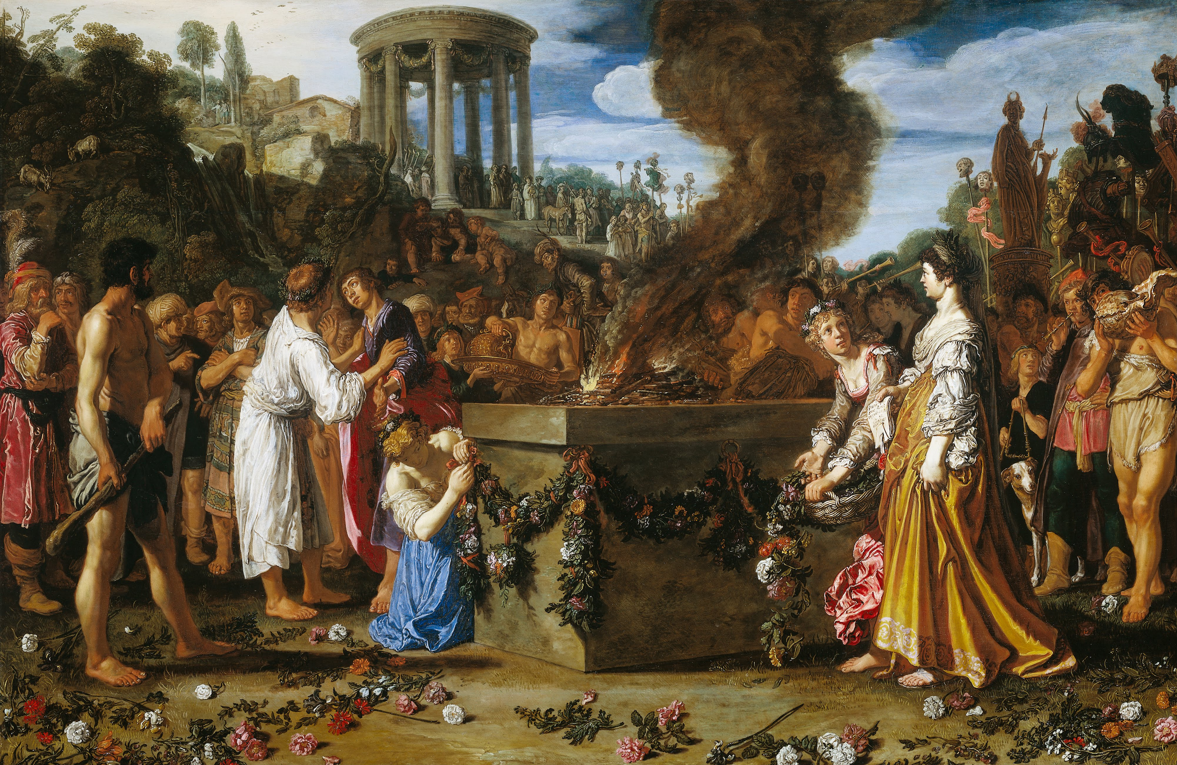 Orestes and Pylades disputing at the altar. The two friends are standing left of the altar on which branches are burning. Left the executioner is waiting holding a club. On the right Iphigeneia recognises her brother Orestes. A girl is throwing flowers at her feet. A large group of people has gathered around the altar. Left a girl ties a festoon of flowers to the altar. Right the statue of Artemis is standing. On a hill in the background stands a round temple dedicated to Artemis from which a long procession makes its way to the altar.